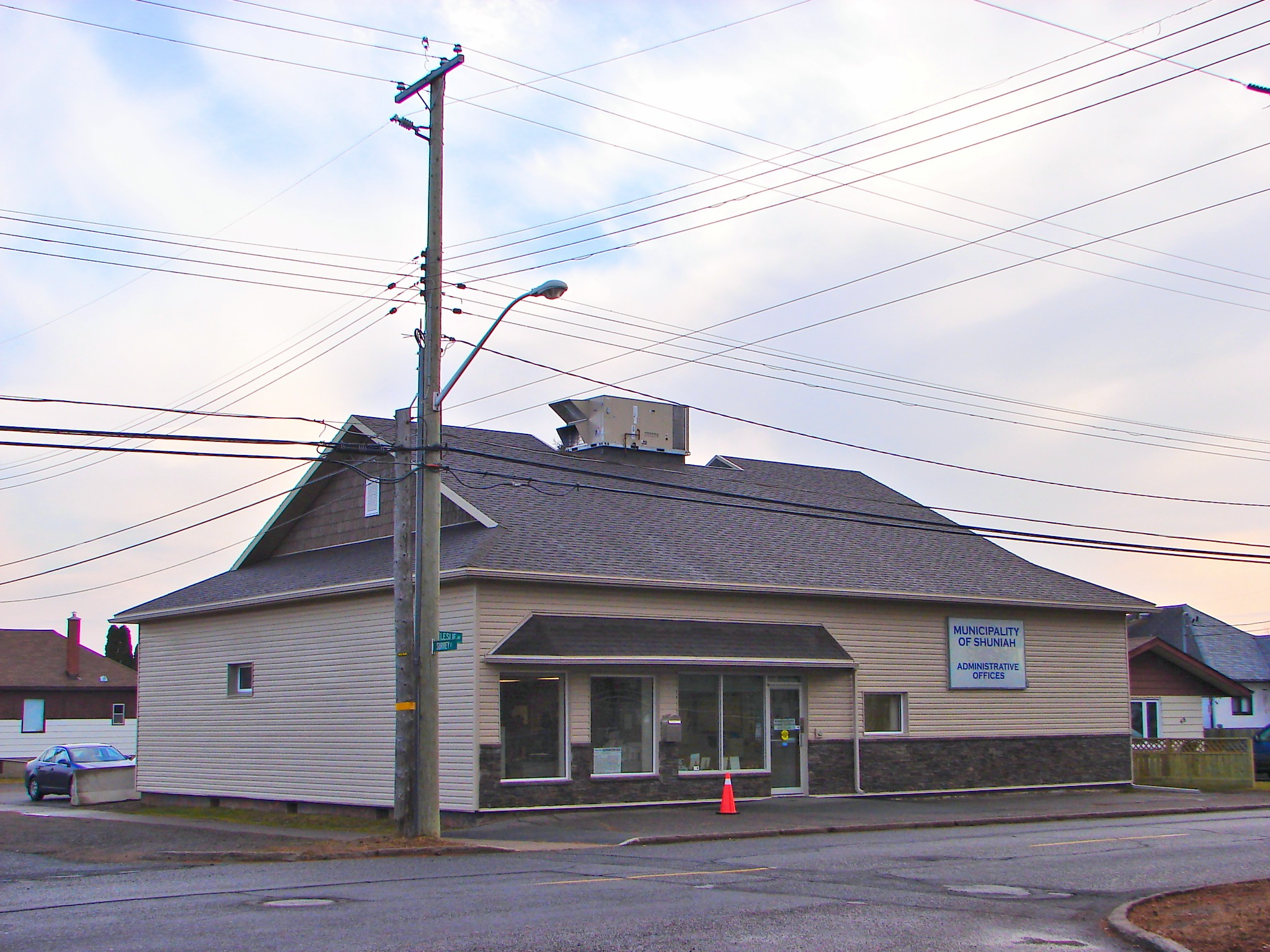 Municipal building of Shuniah Township, Ontario, Canada